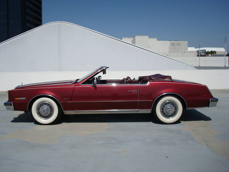 Oldsmobile Toronado convertible, 1984 model